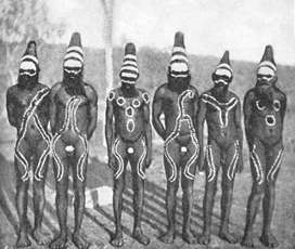 Arrernte in a Corroboree